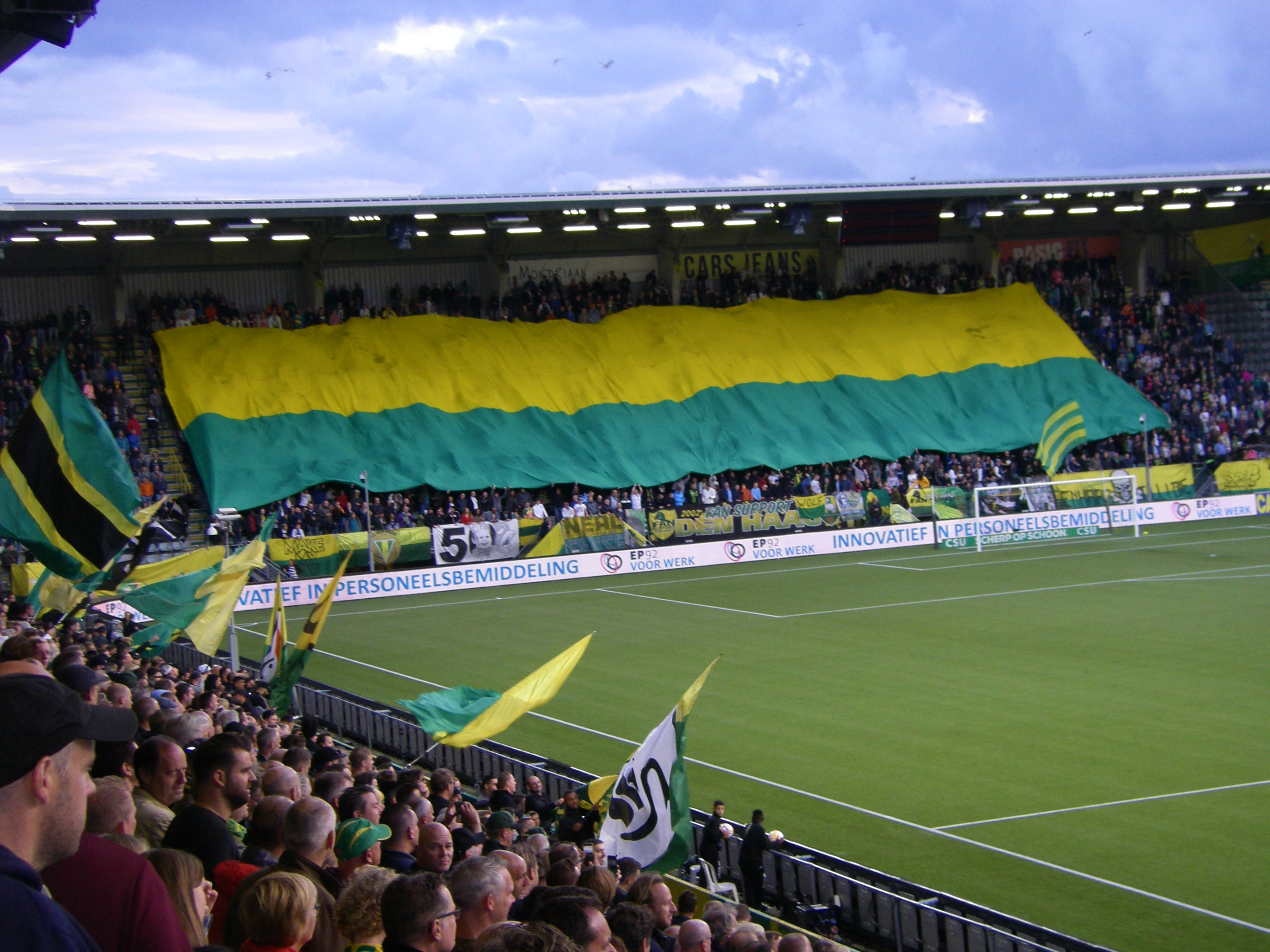 Supporters Flag of ADO Den Haag